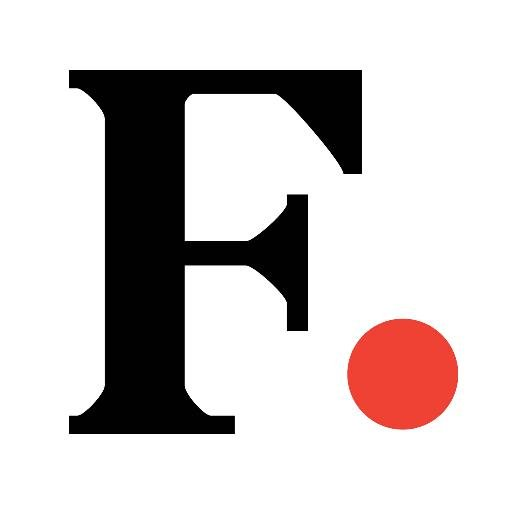 The official logo of the Indian news website Firstpost